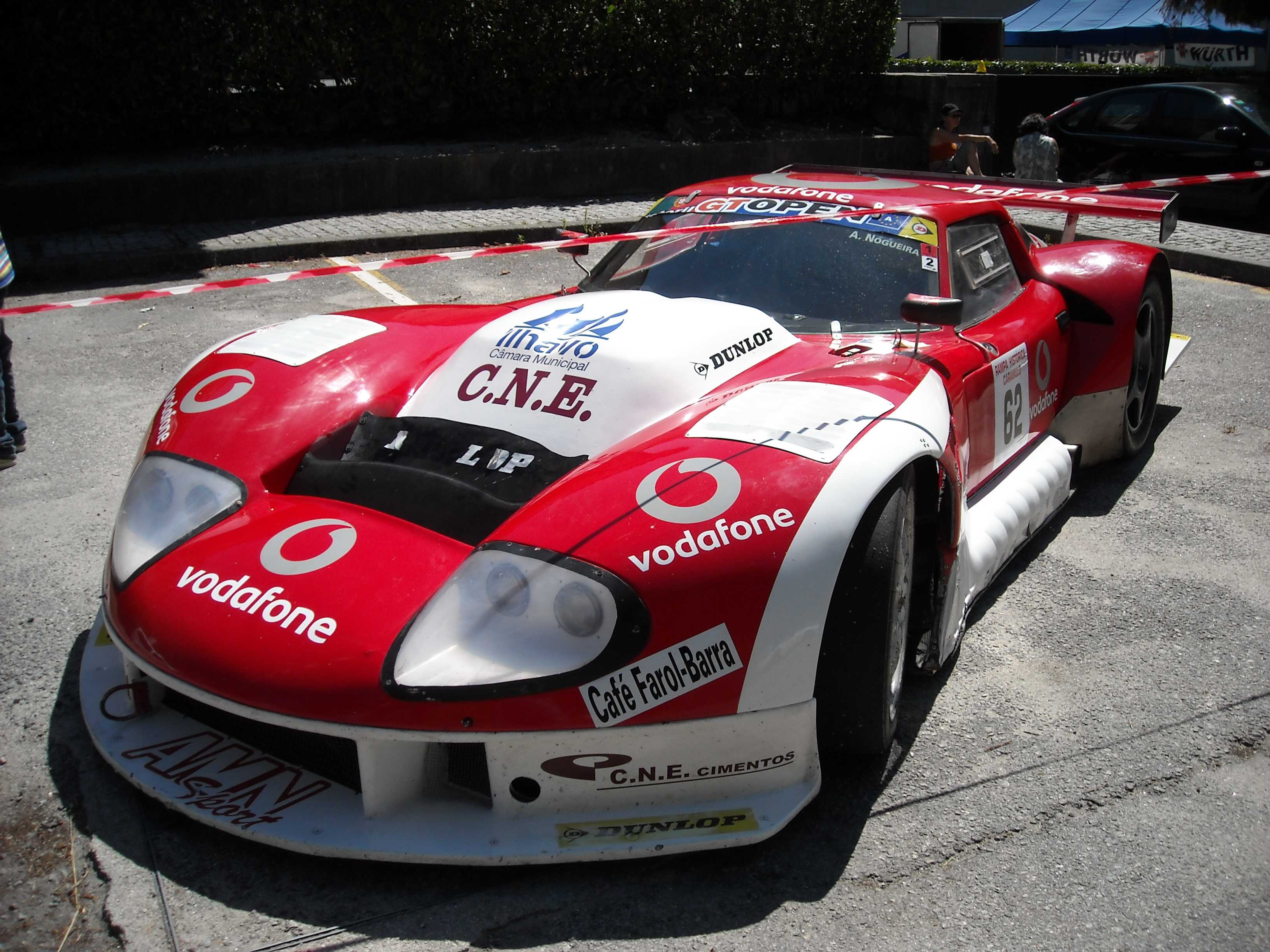 Marcos LM600 campaigned by António Nogueira, at a show in Caramulo, Portugal, September 2008.